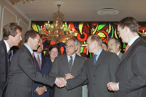 NEW YORK. Signing an agreement between the Tyumen Oil Company (TNK) and Eximbank USA. Vladimir Putin with TNK President Simon Kukes.